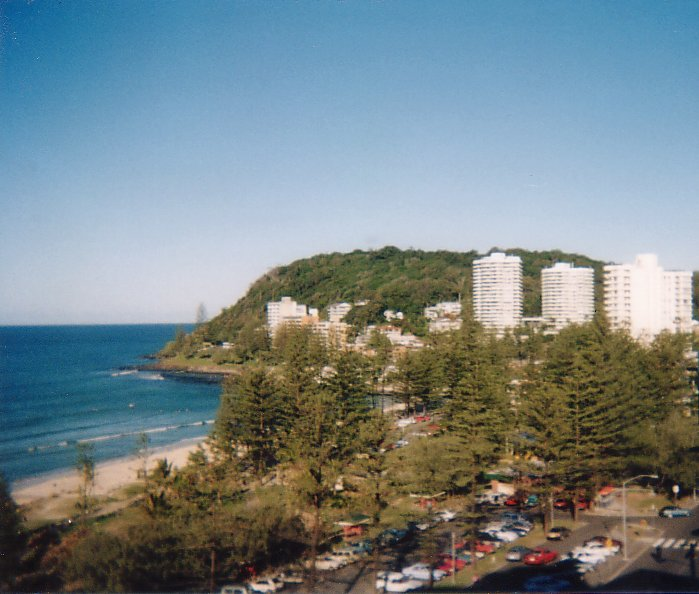 A photo I took on film and later scanned of Burleigh Heads, Queensland, Australia. Taken sometime in the 1990s.--Commander Keane 02:41, 8 July 2006 (UTC)